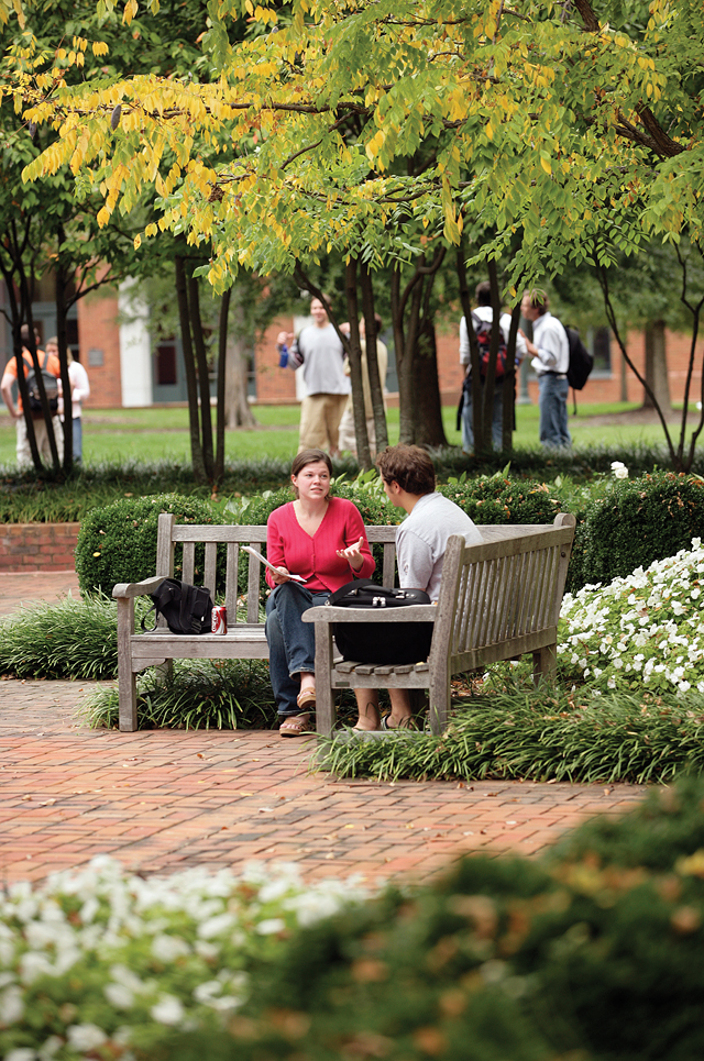 University of Virginia School of Law, Spies Garden